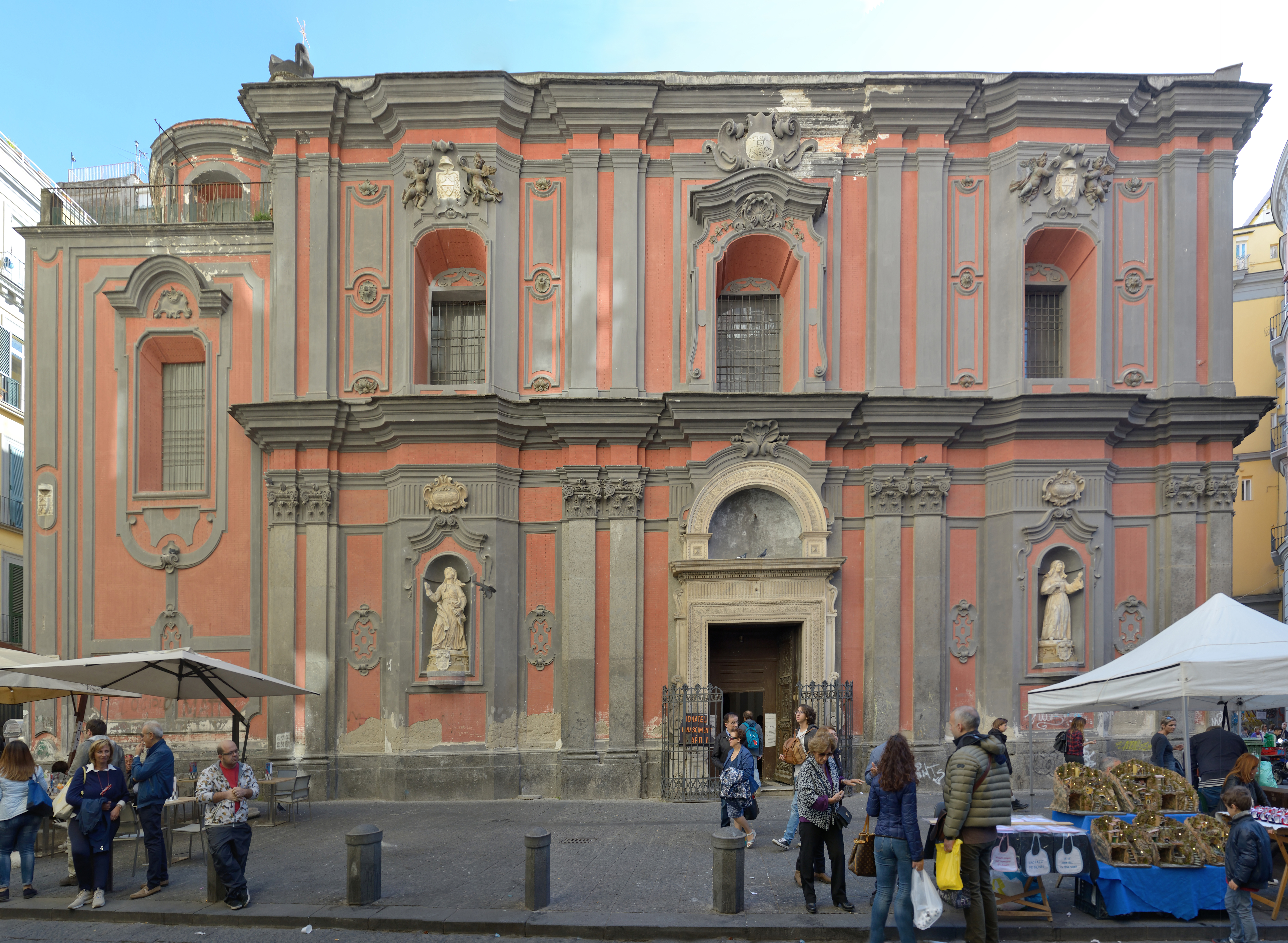 Facade of the Sant'Angelo a Nilo church in Naples.